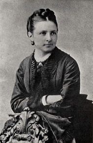 Vassar College alumna and librarian Florence Cushing, for whom Cushing House is named.